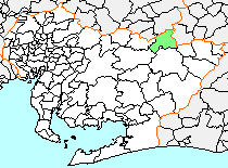 Location Map of former Inabu Town, Aichi Prefecture, Japan, now part of Toyota City.